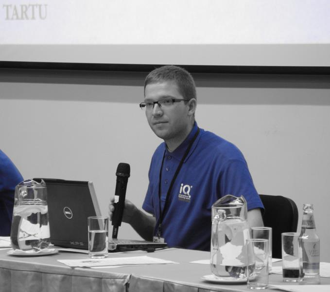 European Quizzing Championships 2012. Arko Olesk - main organizer.